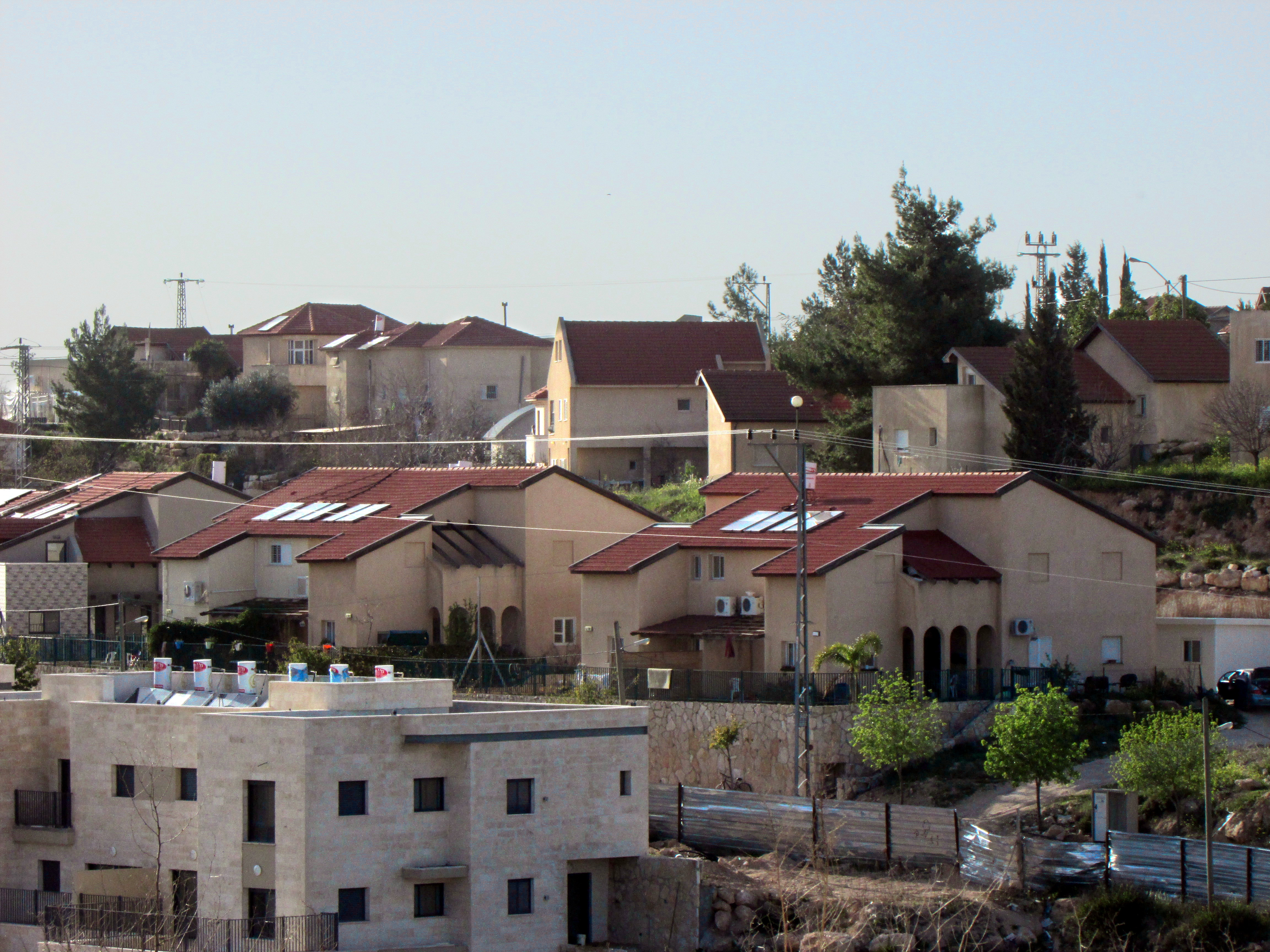 Otniel